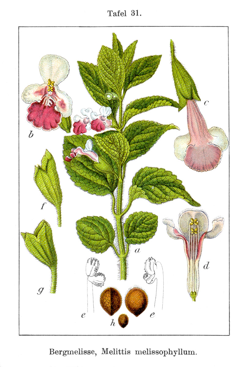 Original caption Bermelisse, Melittis melissophyllum